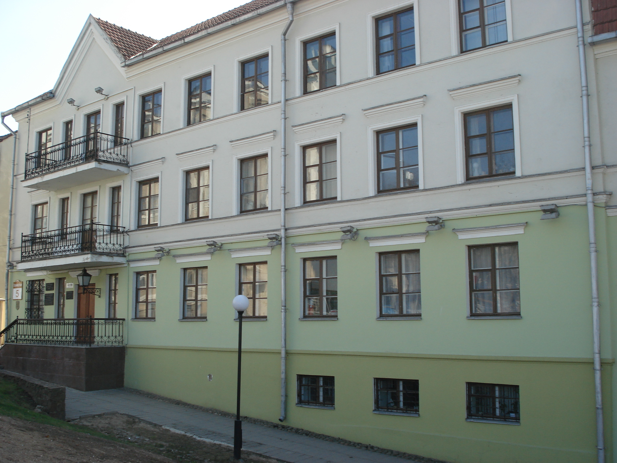 Traeсkaje suburb? Miensk